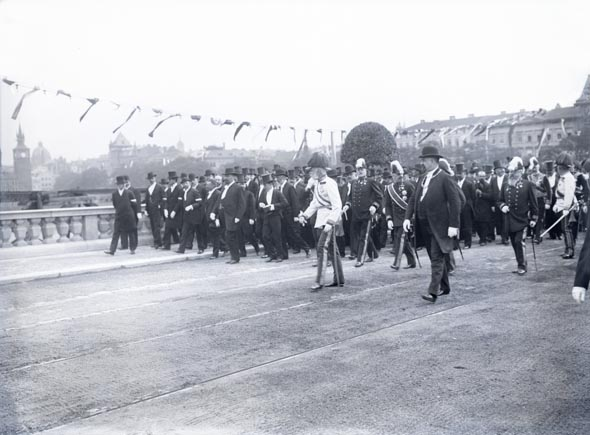 Emperor Franz Joseph I of Austria visiting Prague and opening the new Emperor Francis I. Bridge . One of the captions of the newspapers read "Procházka na mostě", which means "walk on the bridge". But since Procházka is a common Czech family name, the emperor was after that also known as the "the old Procházka".